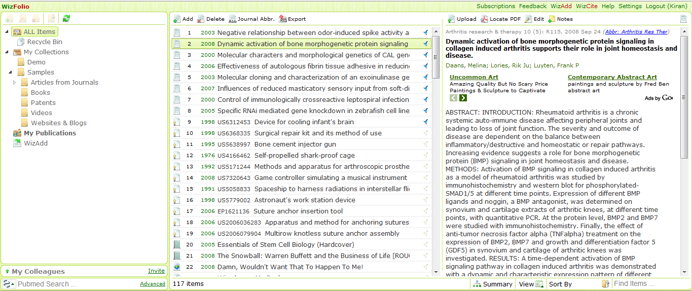 WizFolio, web 2.0 reference management software. Screen shot of interface with Folder Panel, Item List Panel and Preview Panel.